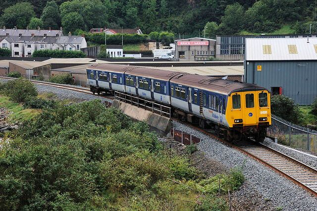 Approaching Larne Town station. See 244826. This is the 12.50 Belfast Central-Larne Town seen from the Harbour Highway. There is a tight curve here as the line circles Larne Lough. The bridge carries the line over the Inver River.